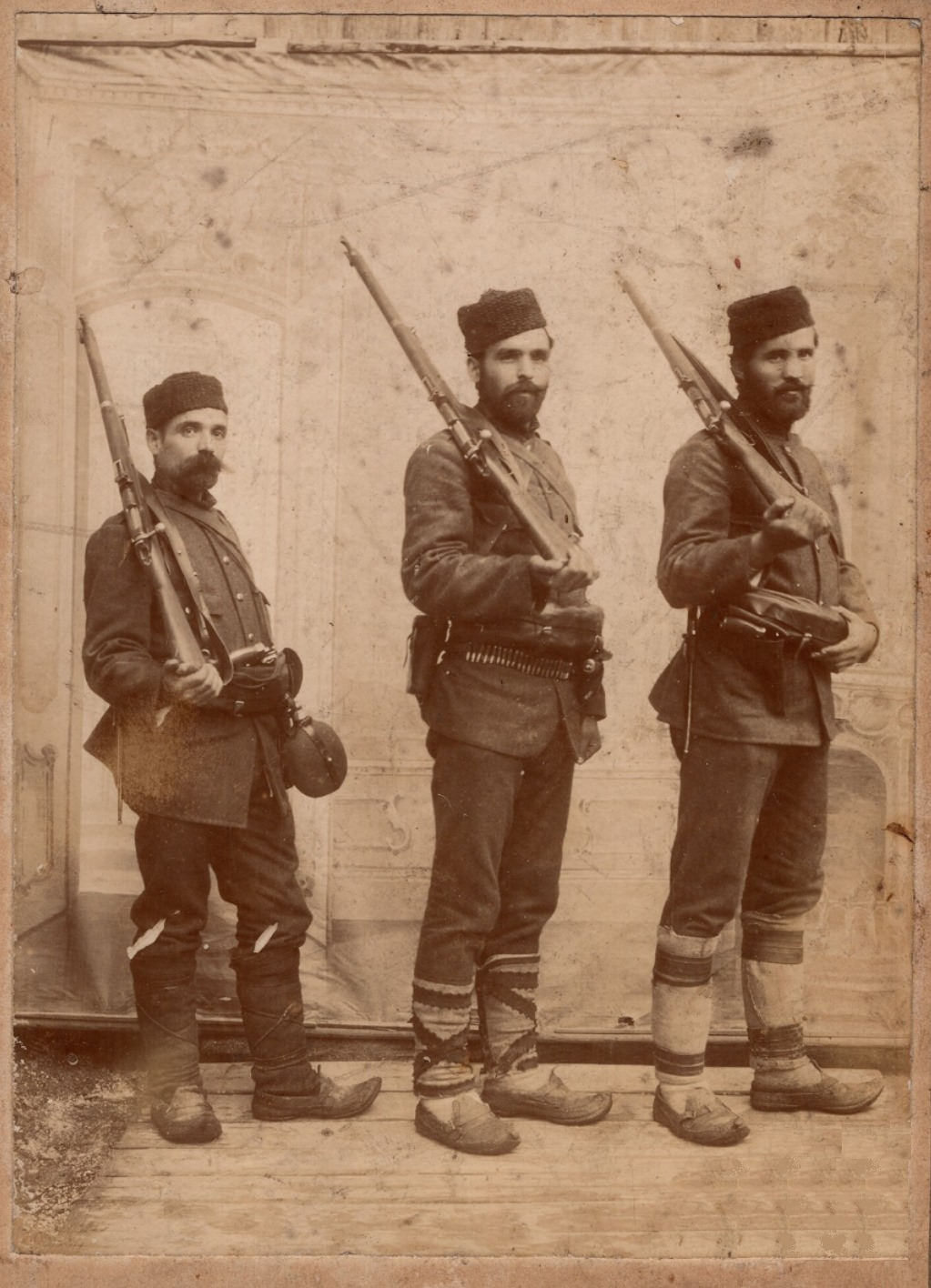 Portrait of Yordan Lazarov from Macedonian-Adrianopolitan Volunteer Corps